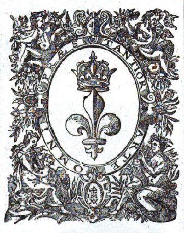 Typographical mark of Jamet Mettayer, french printer.